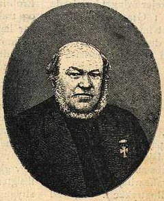 Anders Christiansen (1819-1882), Danish farmer